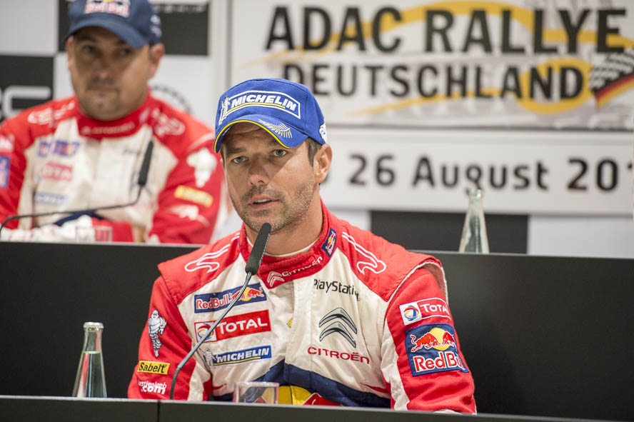 Rally Germany 2012 ADAC Rallye Deutschland,Motorsport,Rally,Rallye,Rallye Deutschland,WRC